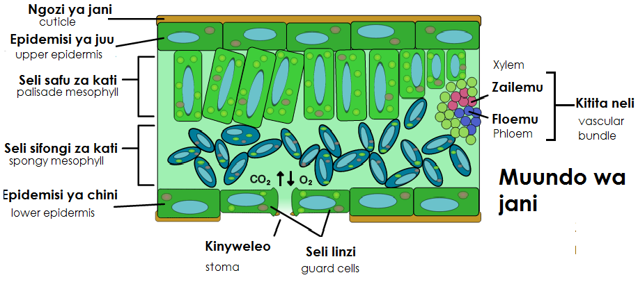 commons/9/90/Leaf_anatomy.svg,, translated to Swahili Kiswahili: commons/9/90/Leaf_anatomy.svg, nimeiswahilisha